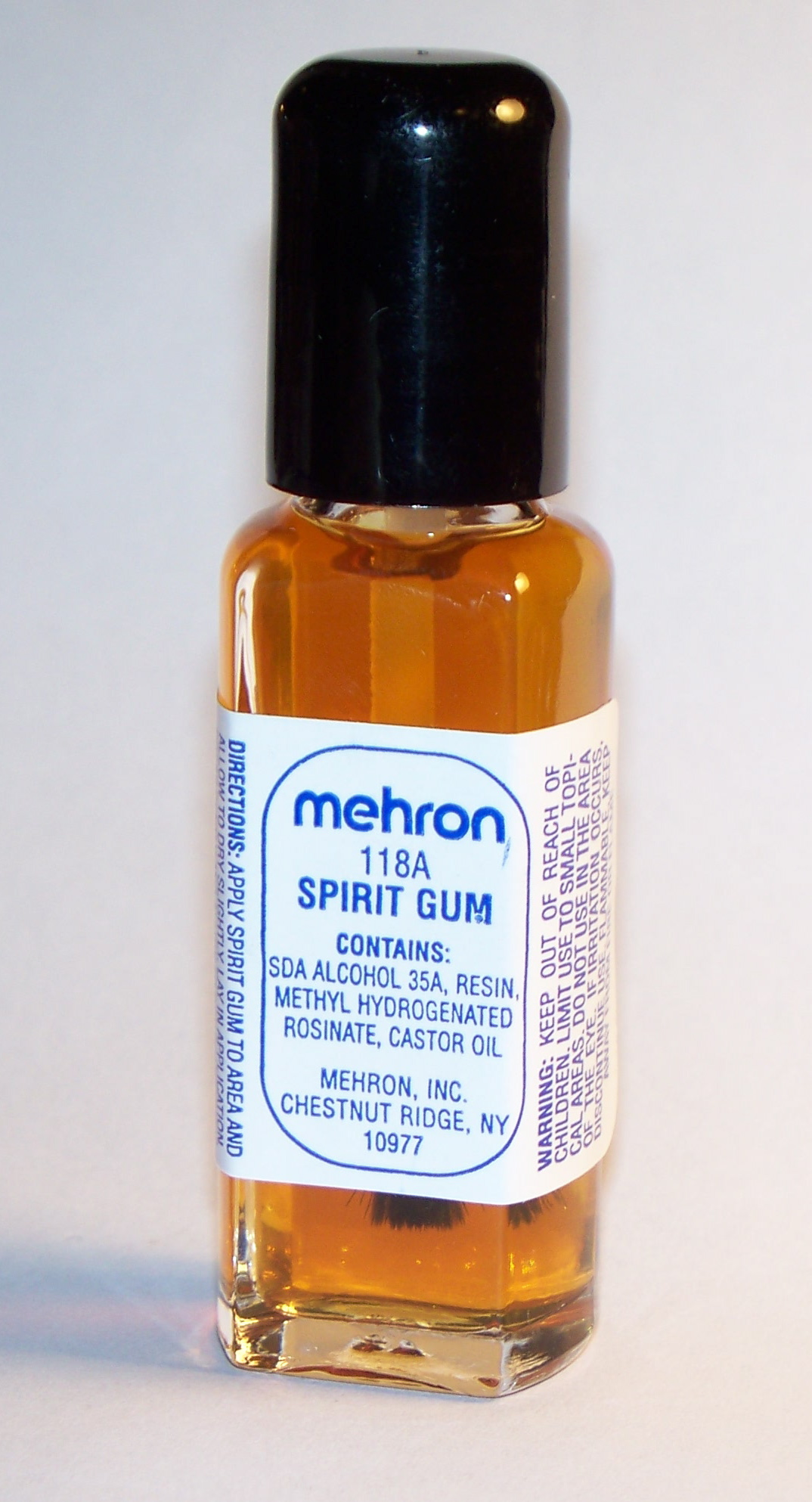 A 3 oz bottle of Spirit Gum made by mehron.